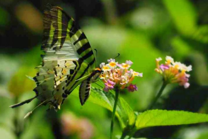 Fivebar Swordtail, West Bengal, India